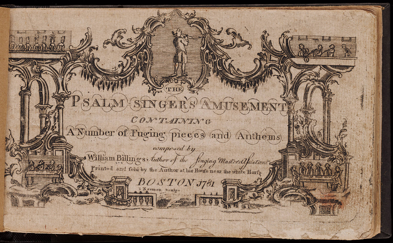 The psalm-singers amusement : containing a number of fuging pieces and anthems / composed by William Billings, author of the singing masters assistant ; printed and sold by the author at his house near the White Horse, Boston Boston: John Norman, 1781.